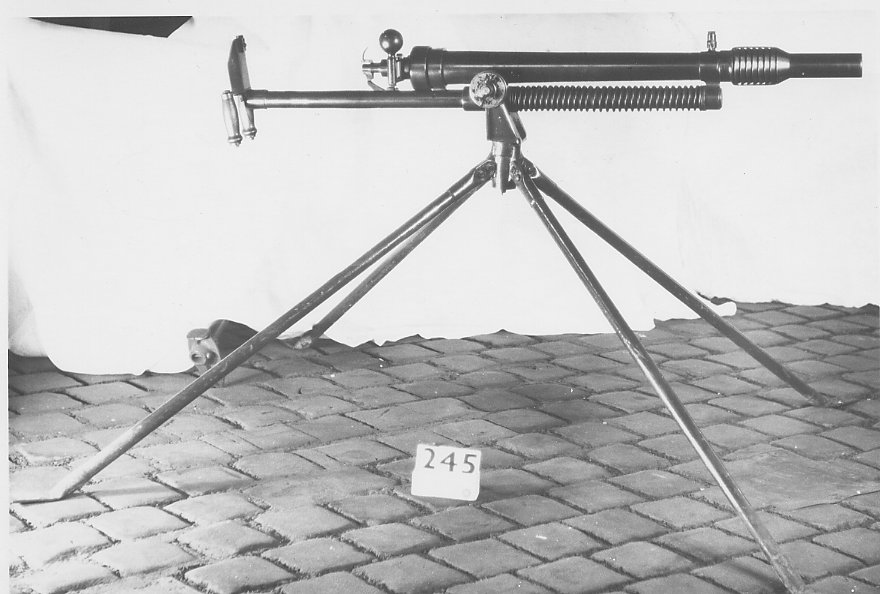 Photograph of British Ordnance Q.F. 1.59-inch Mark II (the "Crayford gun"). The four-legged mounting seen here was not the standard mounting. Believed to have been taken at Royal Small Arms Factory, Enfield, UK.